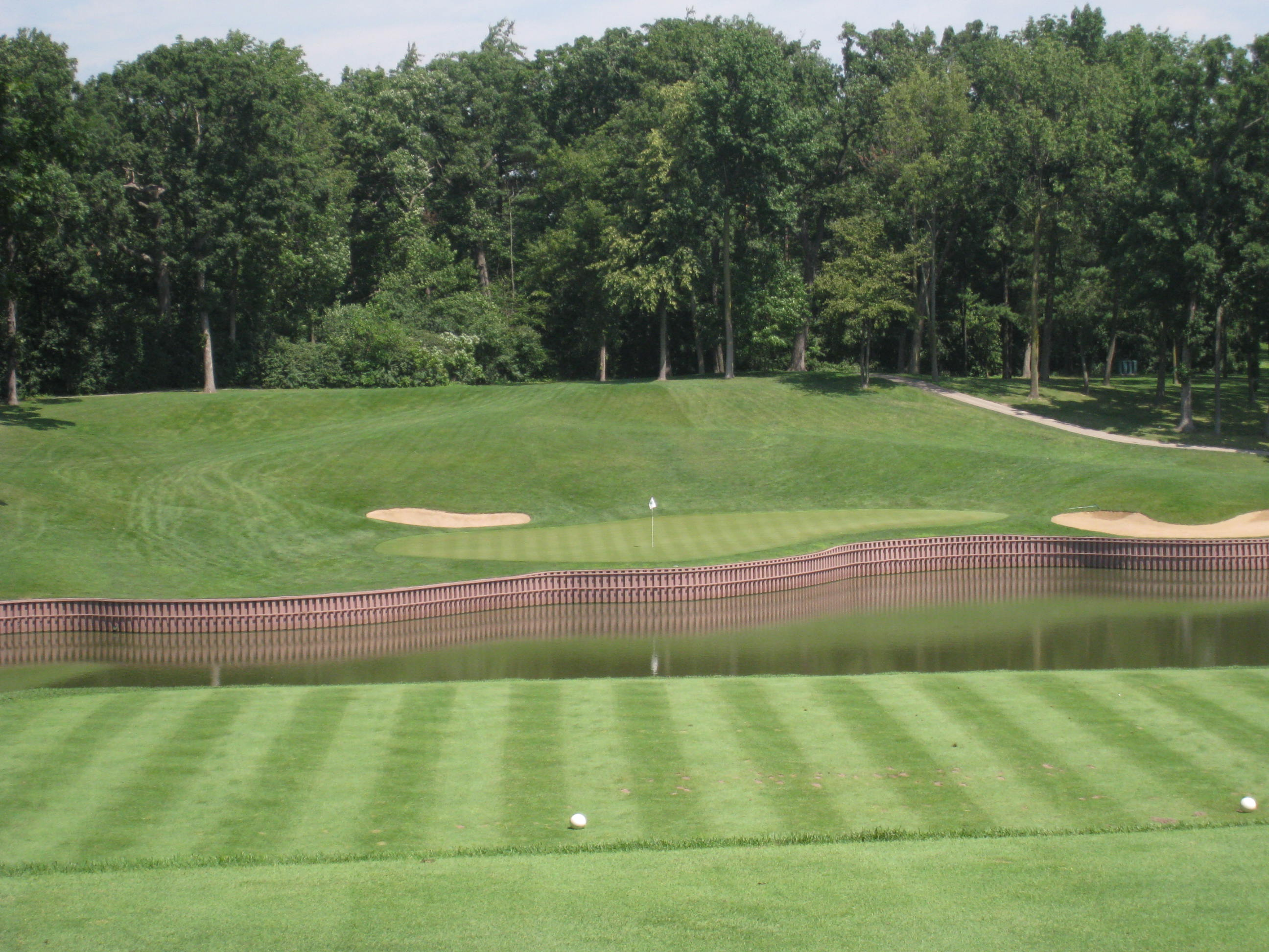 Seventeenth tee My review of Medinah Country Club , including a tour of the clubhouse.